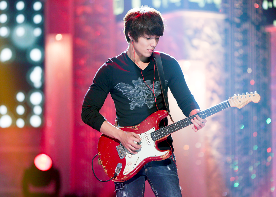 FTISLAND's Guitarist Choi Jong-hoon